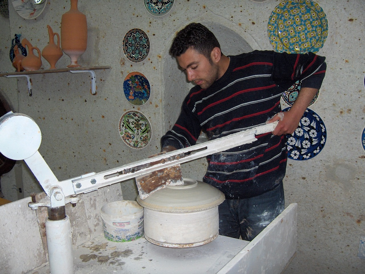 Shaping pottery; pottery factory, Gülşehir, Cappadocia, Turkey